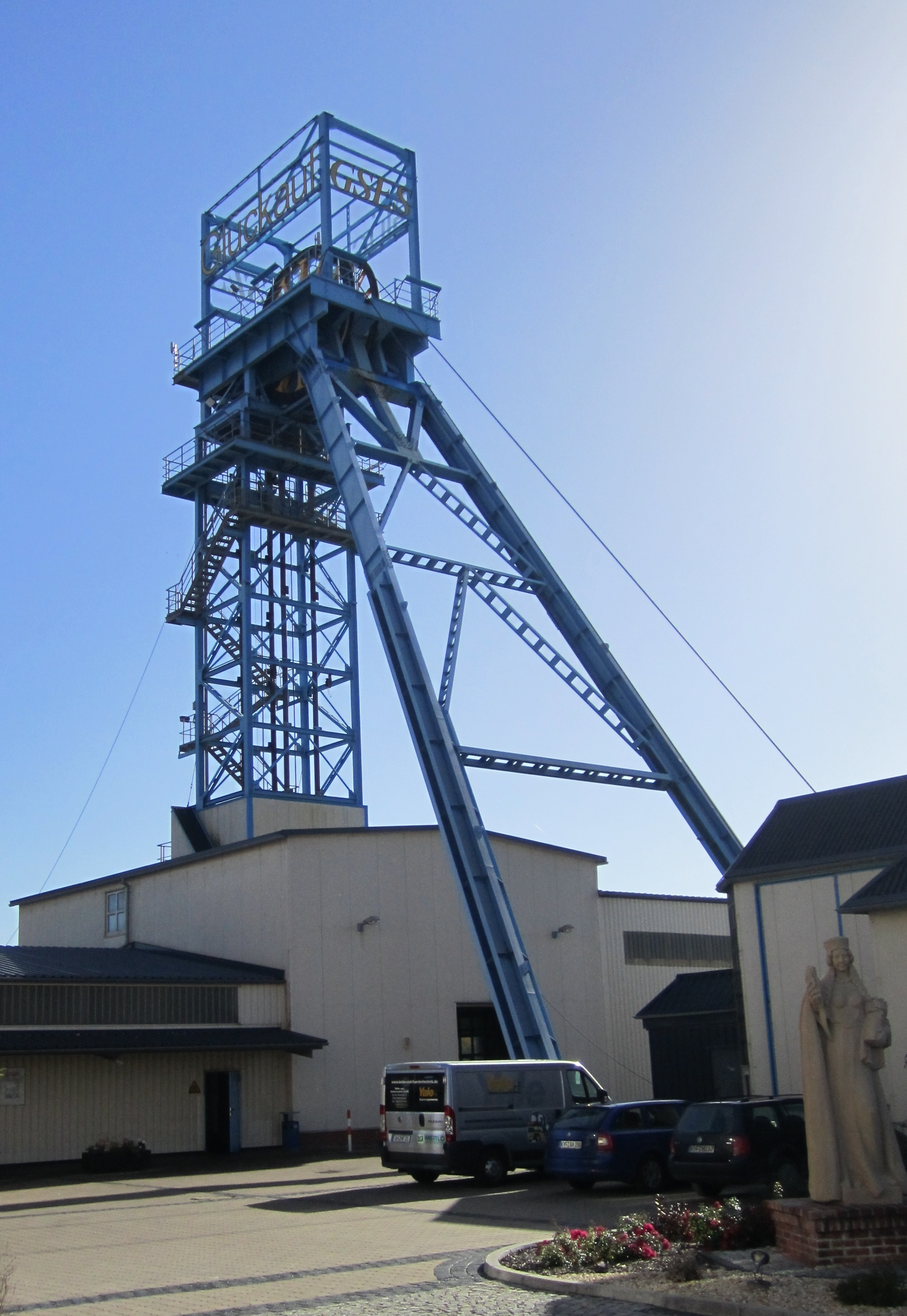 No. 1 shaft of Kaliwerk Glückauf Sondershausen. Sondershausen, Thuringia, Germany.